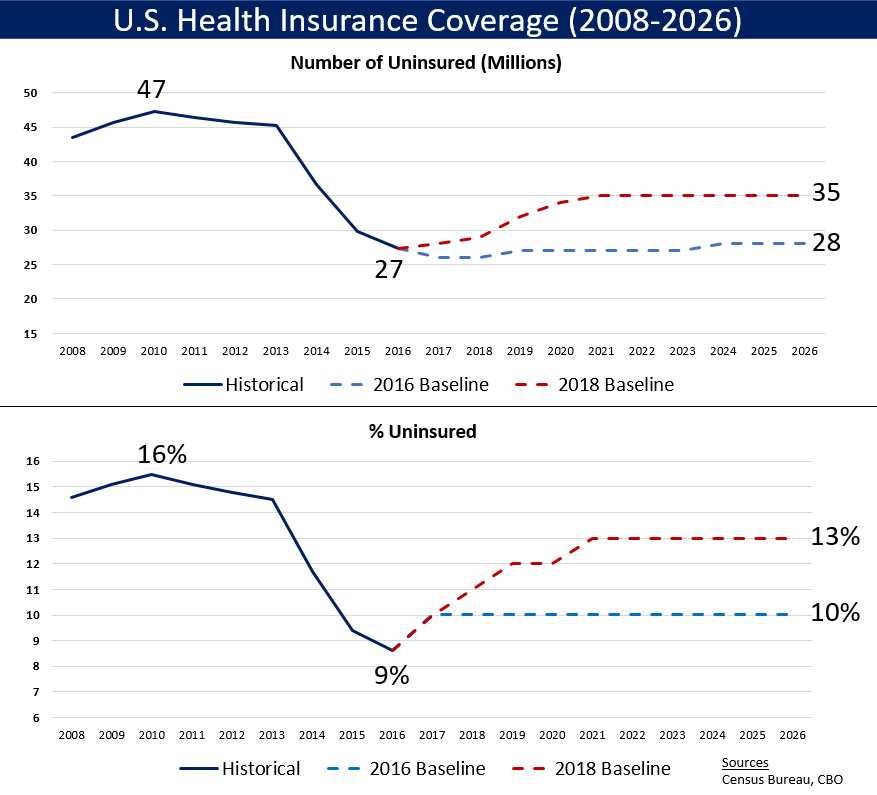 U.S. uninsured number (millions) and rate (%) from 2008-2026, including historical data through 2016 and two CBO forecasts (2016/Obama and 2018/Trump).